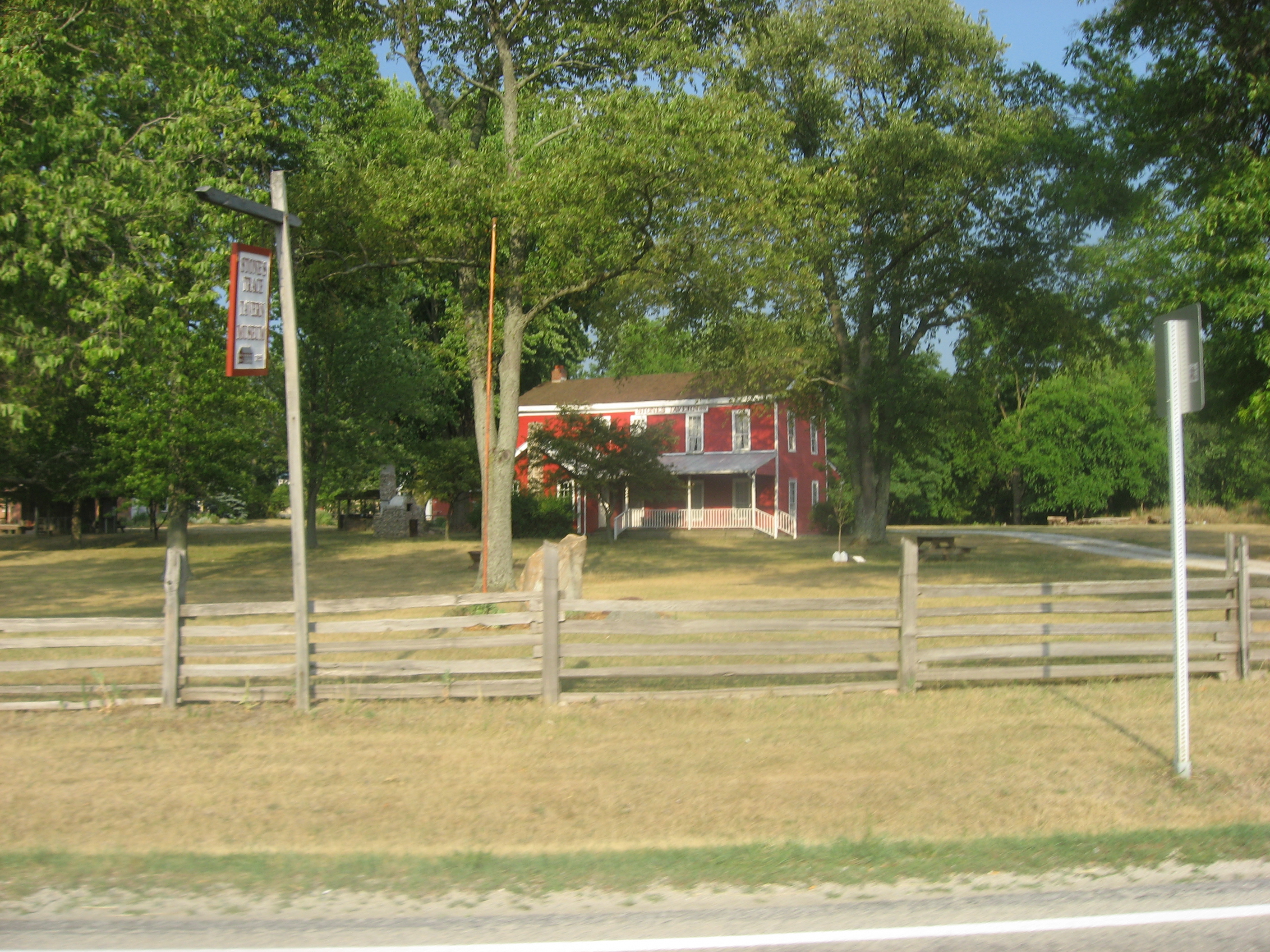 Front of the tavern at Stone's Trace, located immediately south of the junction of U.S. Route 33 and State Road 5 south of Ligonier in Sparta Township, Noble County, Indiana, United States. Built in 1839, it is listed on the National Register of Historic Places.